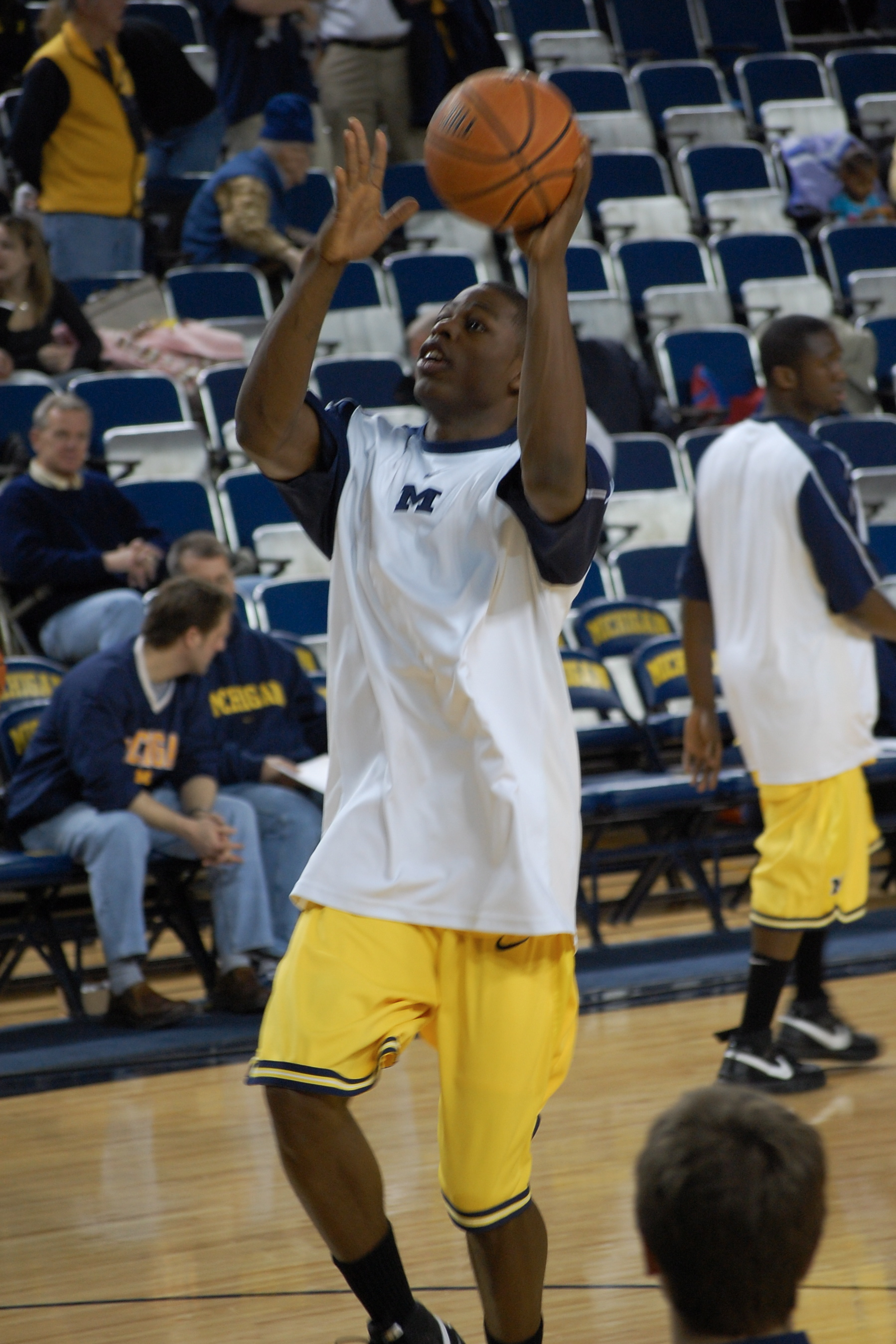 DeShawn Sims. Michigan vs. Ohio State February 16th, 2008 Michigan 80, Ohio State 70